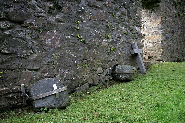 The Blue Stones of Dailly These stones inside Old Dailly Church on the south wall are the two Charter or Blue Stones of Dailly. These Sanctuary Stones are mentioned in the historical notes accompanying ‘The Lord Of The Isles’ by Sir Walter Scott. (Source: Site information board).